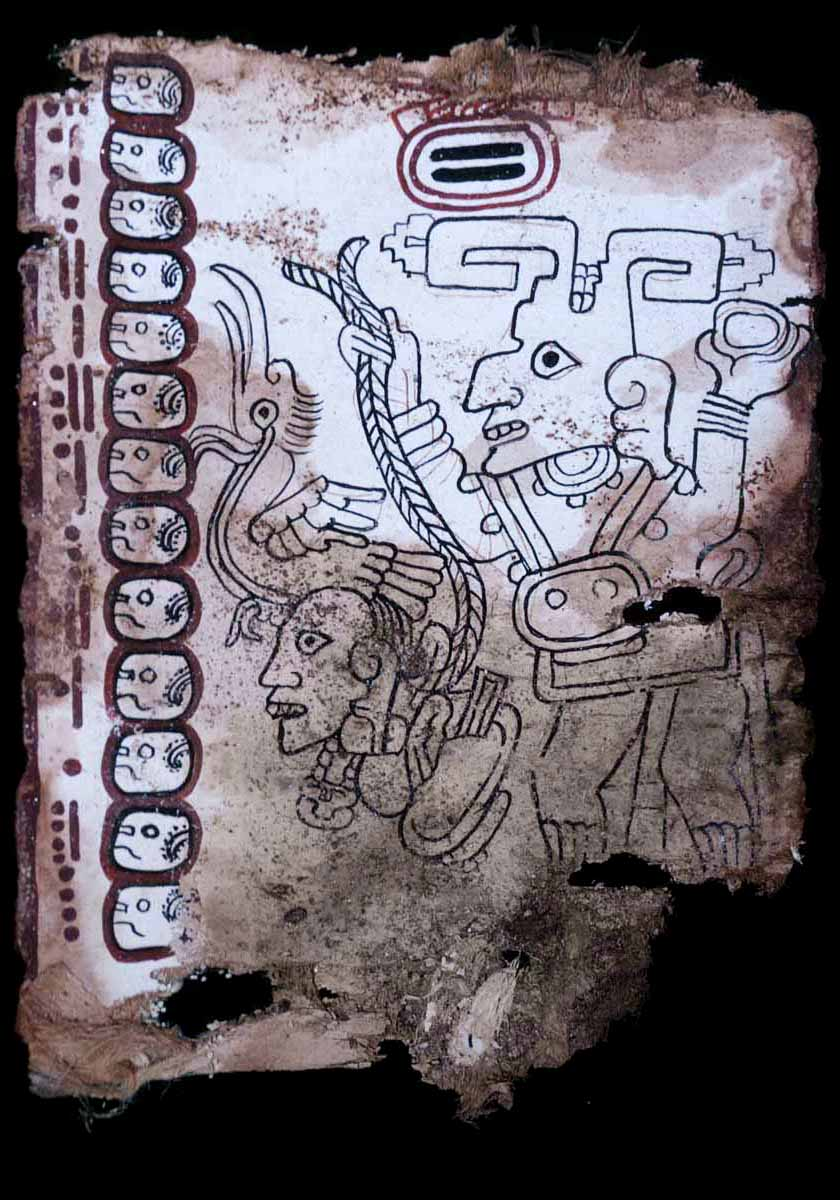 Page 9 of the Grolier Codex, a supposedly pre-Columbian Maya screenfold book, the authenticity of which is disputed.